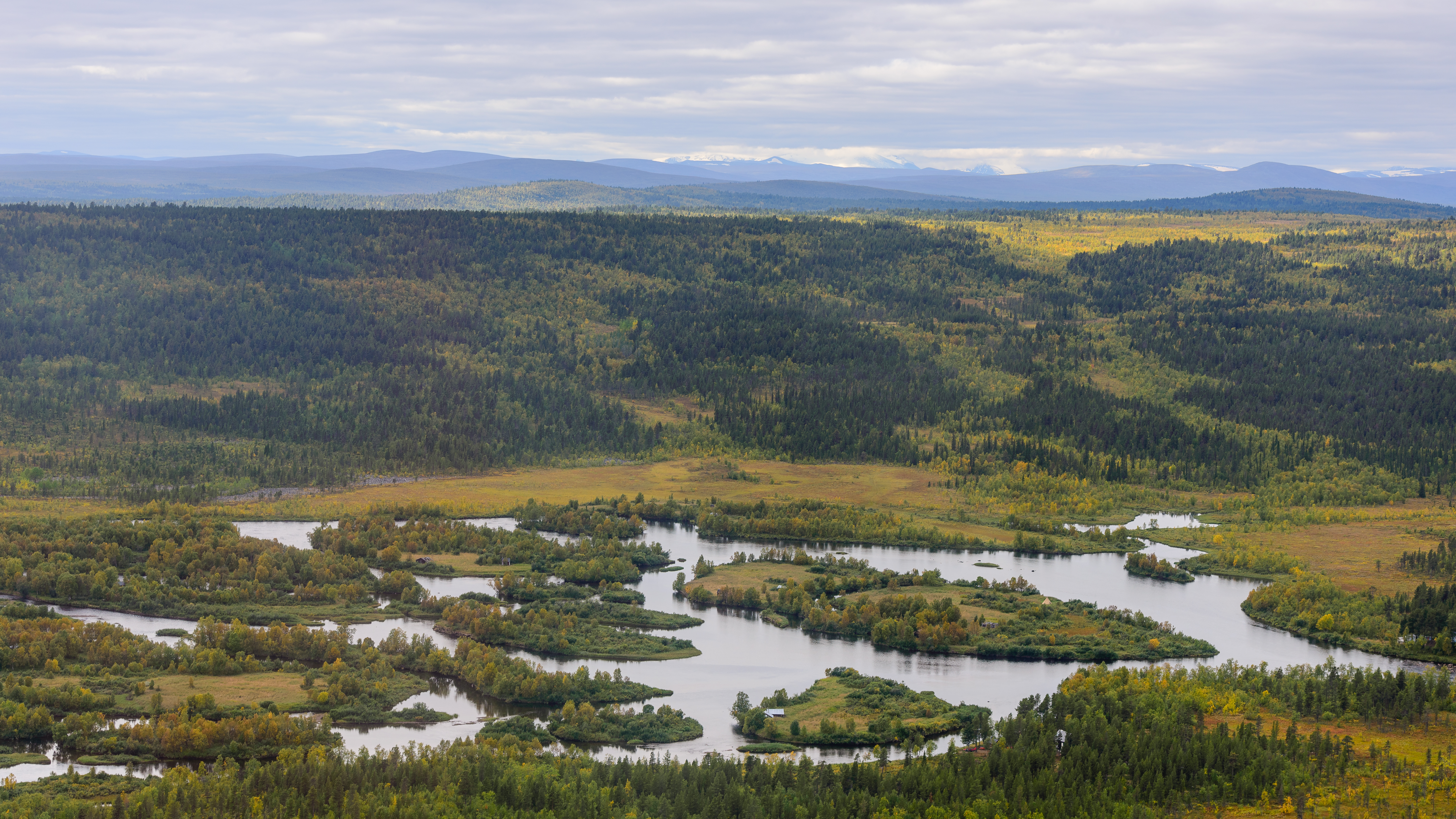 Aerial view of Rauta River (Swedish: Rautasälven, Northern Sami: Rávttaseatnu) and Rauta nature reserve.